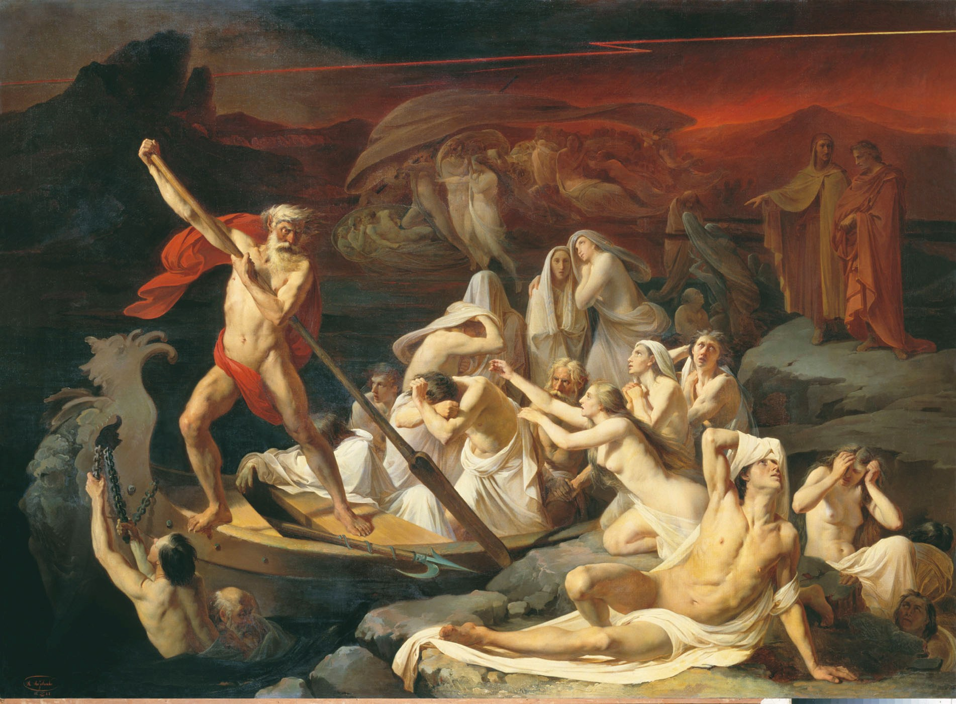 Alexander Litovchenko, Kharon, 1861, Russian Museum